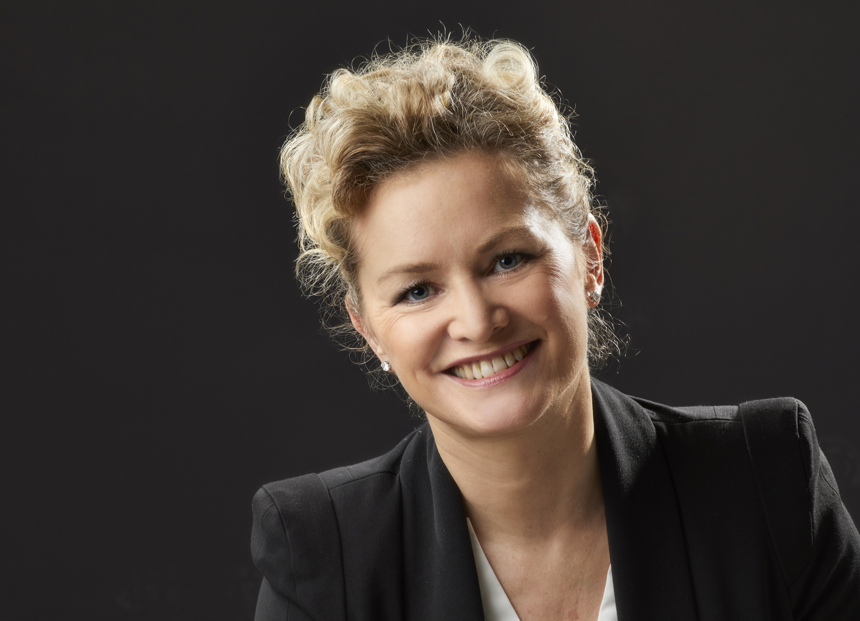 Uta Georgi 2017